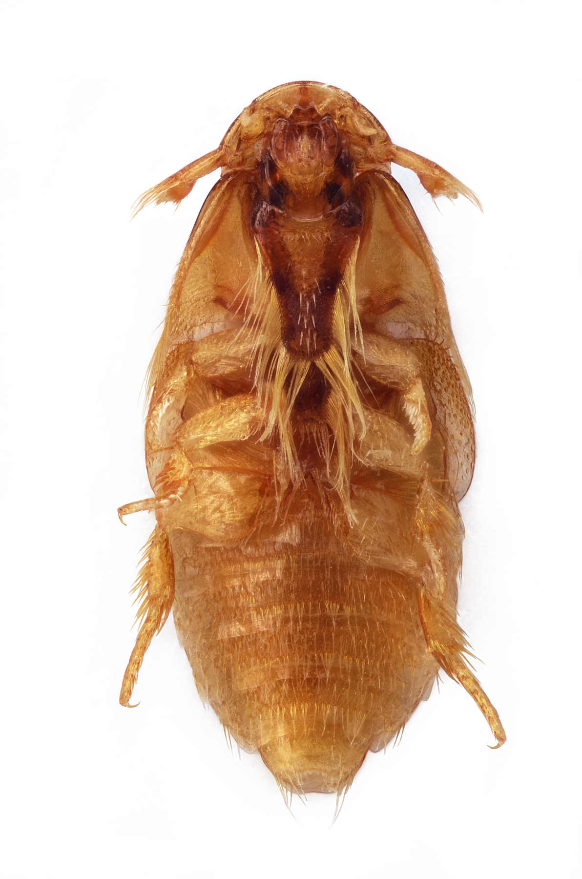 Platypsyllus castoris underside